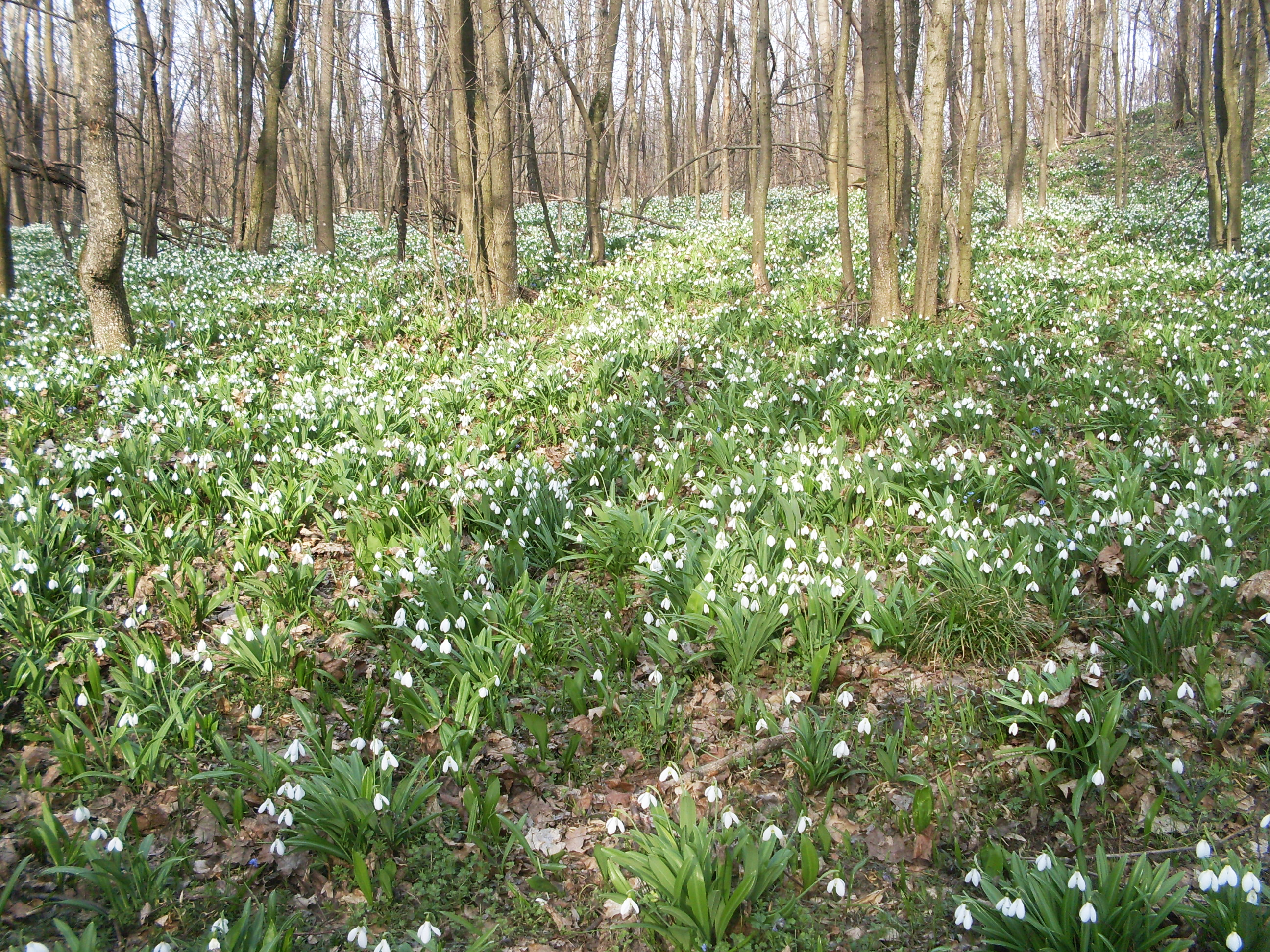 The local protected area "Bilosnizhnyj" (Chigirin district, Cherkasy region, Ukraine)